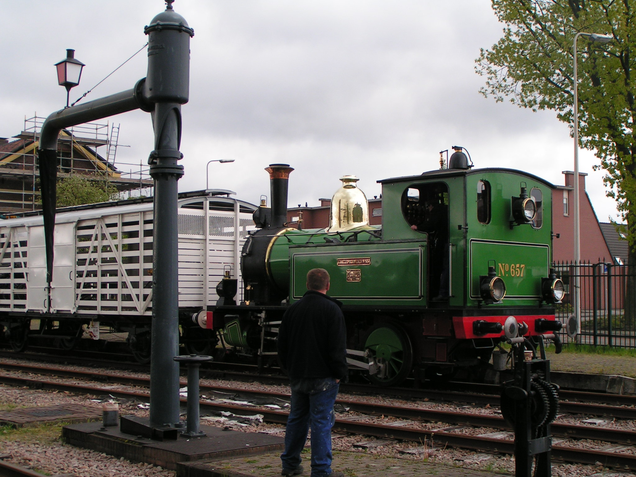 Haaksbergen Railway Station